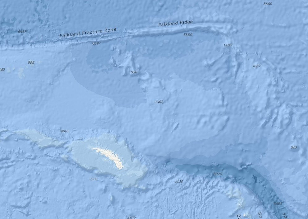 Bathymetric map of Northeast Georgia Rise northeast of South Georgia Island, South Atlantic (52.5°S 31°W).